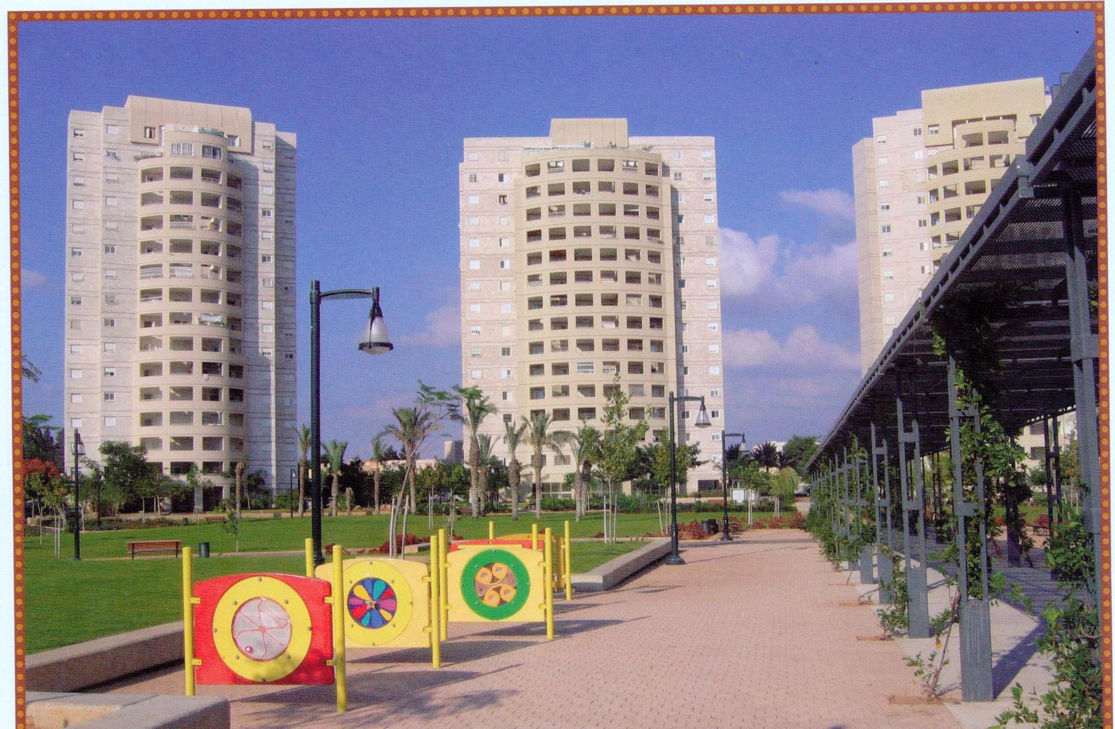 Cities in Israel